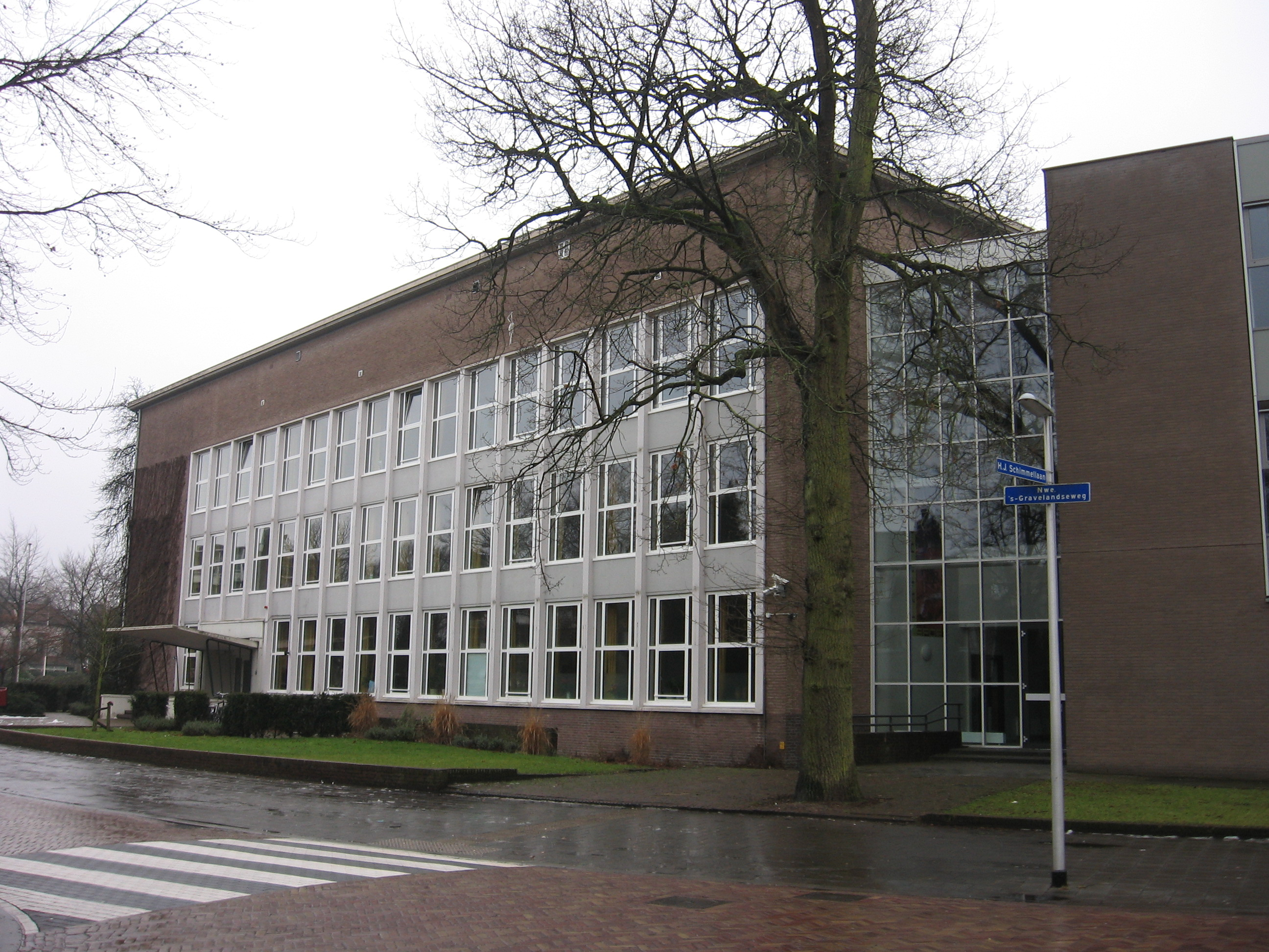 Bussum - Willem de Zwijgercollege